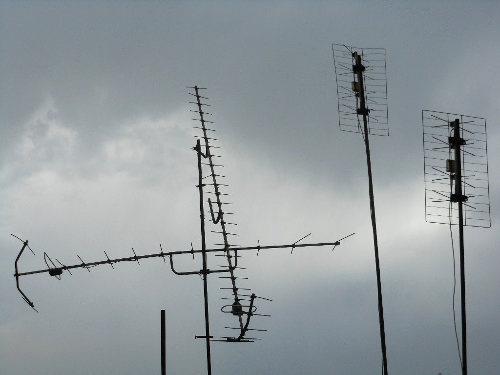 Rooftop television antennas in Lisbon, Portugal. The two on the left are Yagi antennas. The support on the upper one has broken, and it has rotated so it is pointing into the sky instead of at the TV station, making it nonfunctional. The two on the right are UHF reflective array or "bowtie" antennas. They consist of four X-shaped "bowtie" dipole driven elements in front of a reflective metal screen to reflect radio waves back to the driven elements.